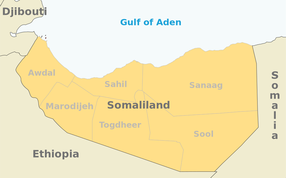 Map of the Republic of Somaliland